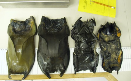 Big skate (Beringraja binoculata - synonym: Raja binoculata) egg cases; fresh ones to the left and old ones to the right side.